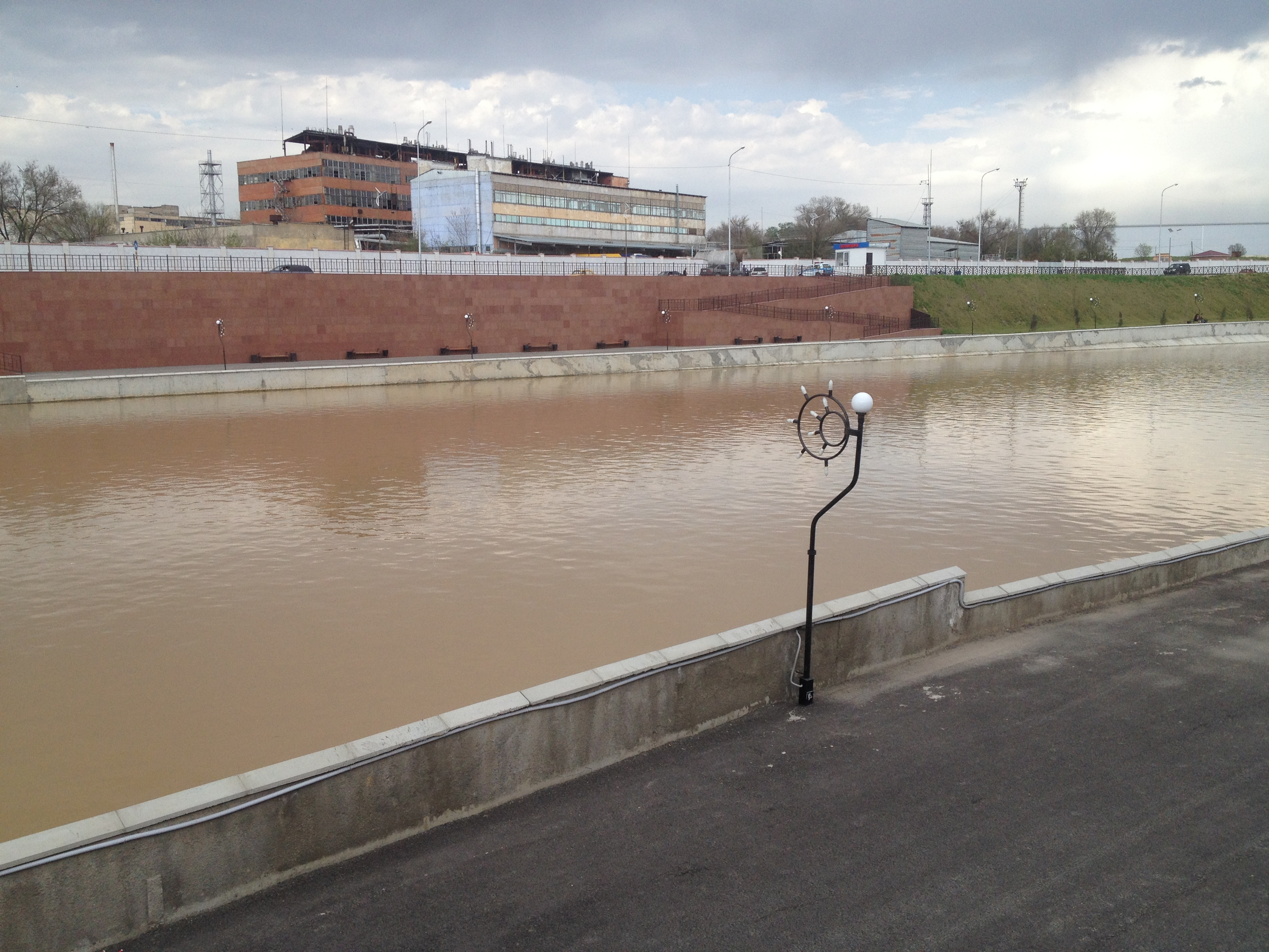 Watersides of Badam in Shymkent